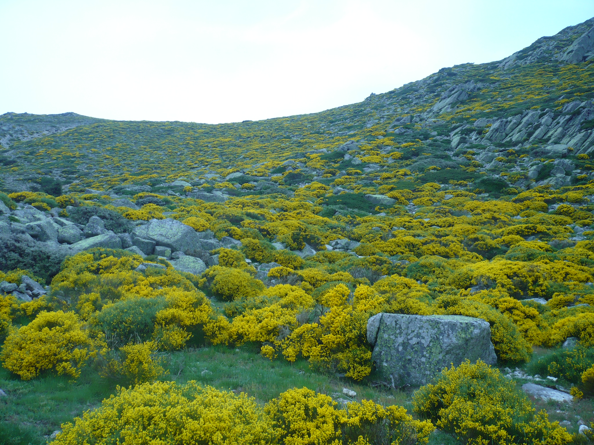 Citysus oromediterraneus in bloom, in the Sierra de Guadarrama, central Spain.